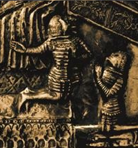 Tvrtko and his brother Vuk